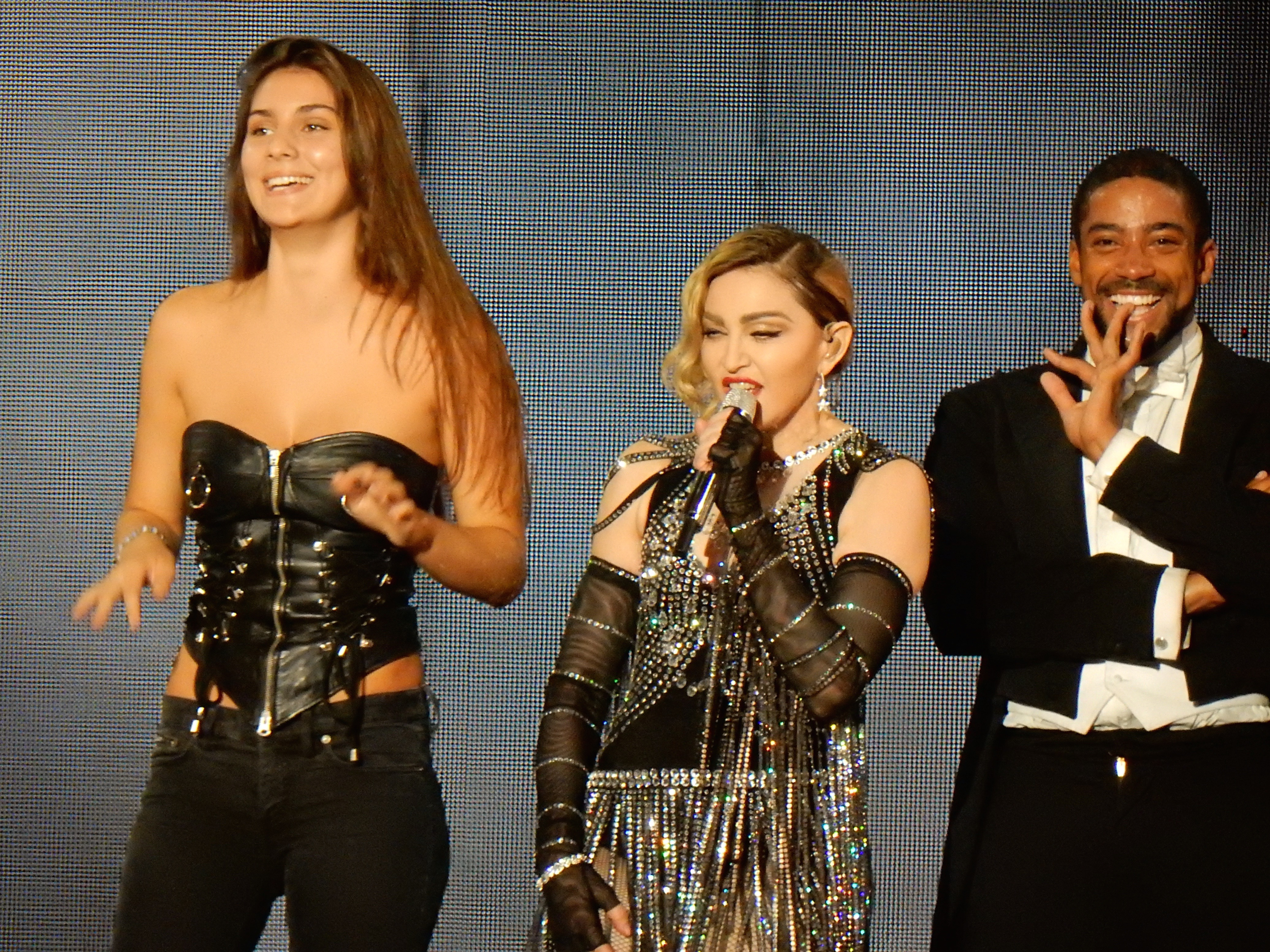 Rebel Heart Tour 2016 - Brisbane 2